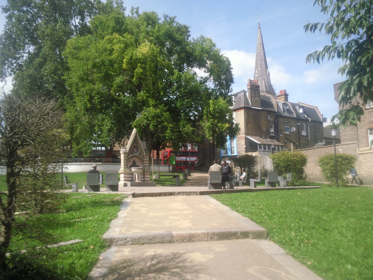 Part of Streatham Green, London SW16, looking north to the Dyce Drinking Fountain (left) and spire of the Roman Catholic church of the English Martyrs. The Dyce Fountain was moved here in 1933 from Streatham High Road.